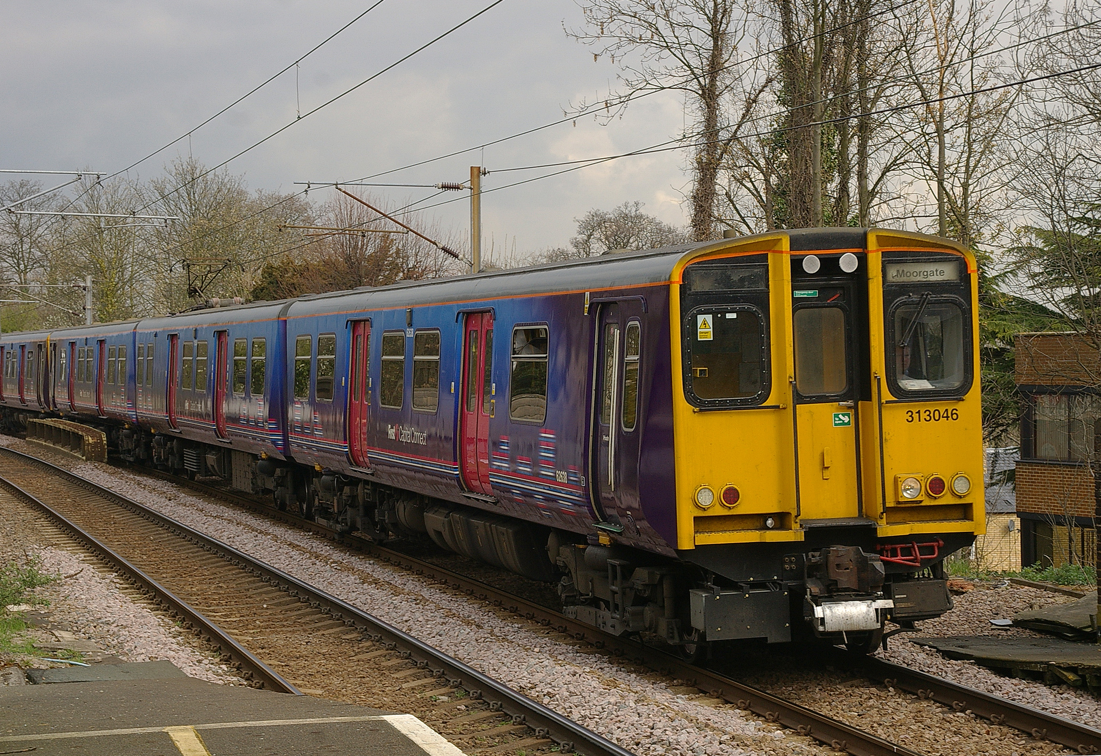 313030/313046 arrives at Enfield Chase railway station with a service to Moorgate.